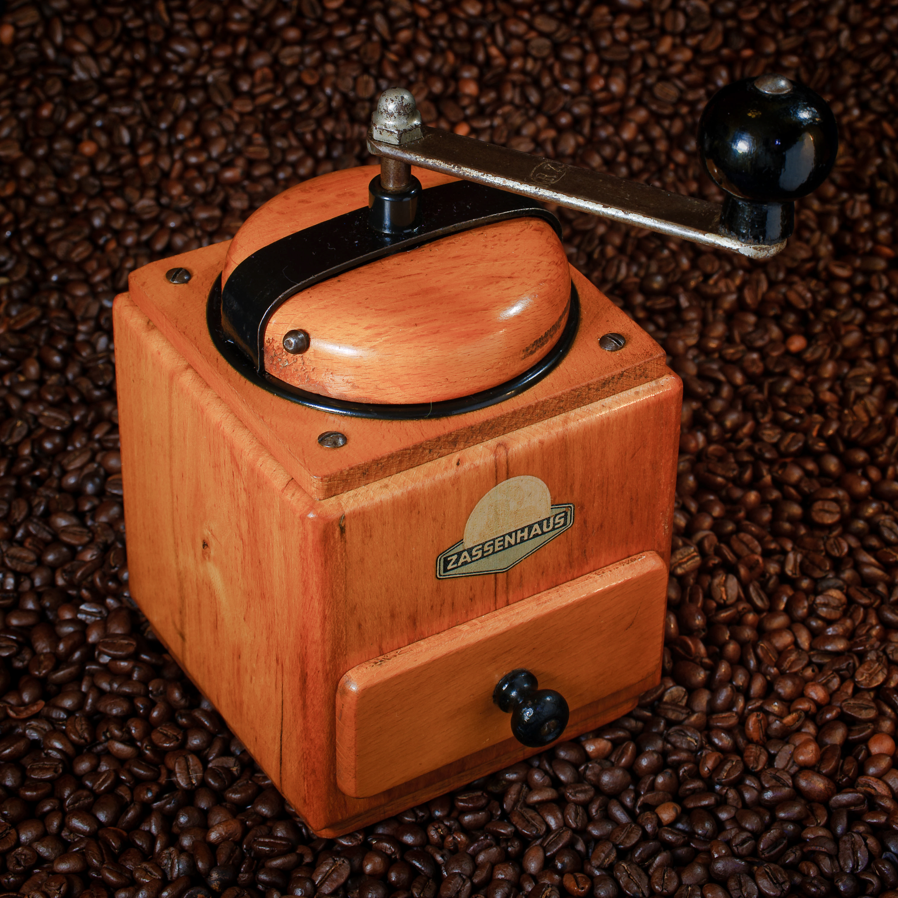 Antique coffee grinder by Zassenhaus